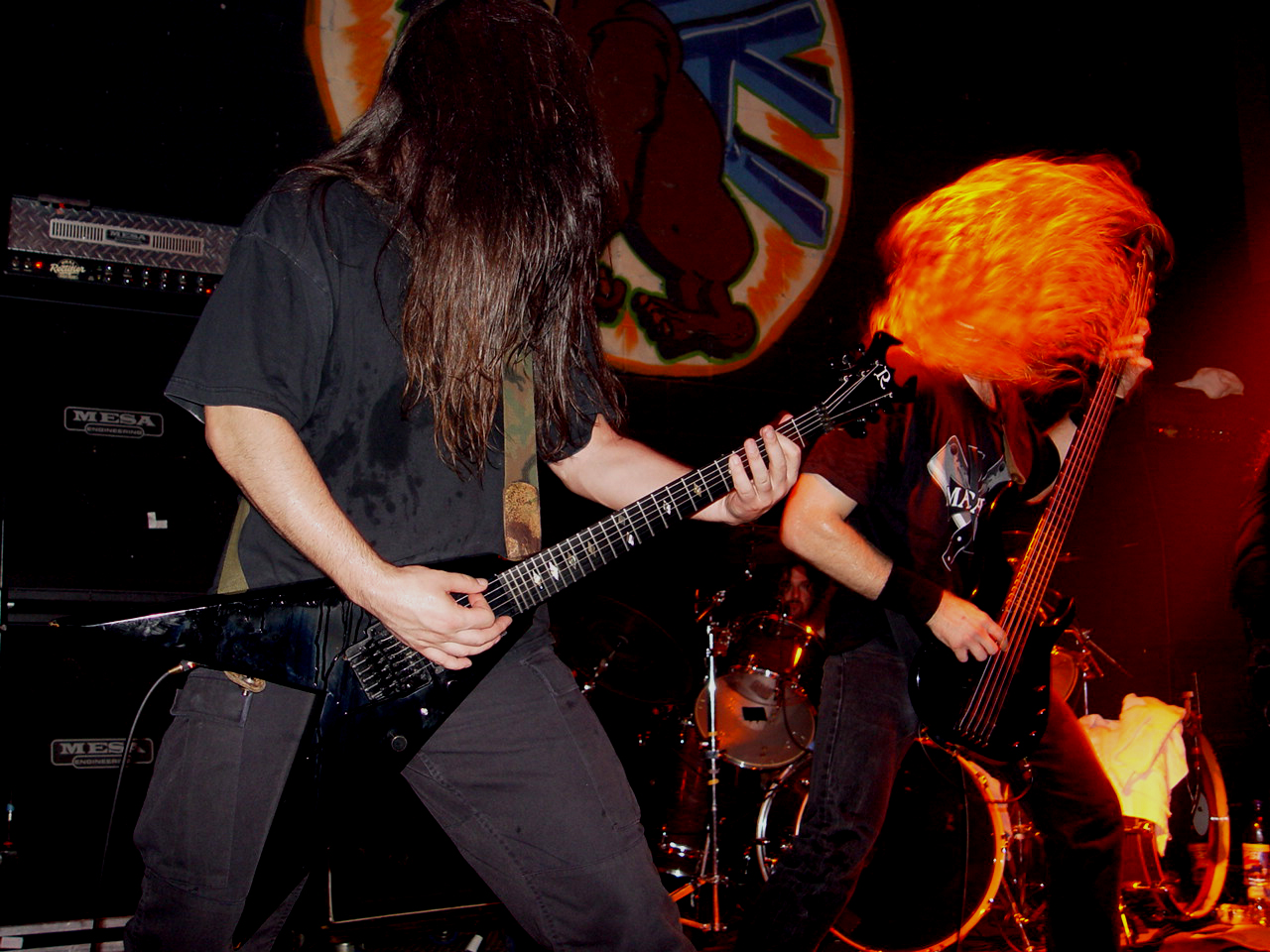 Cannibal Corpse playing live in 2004.